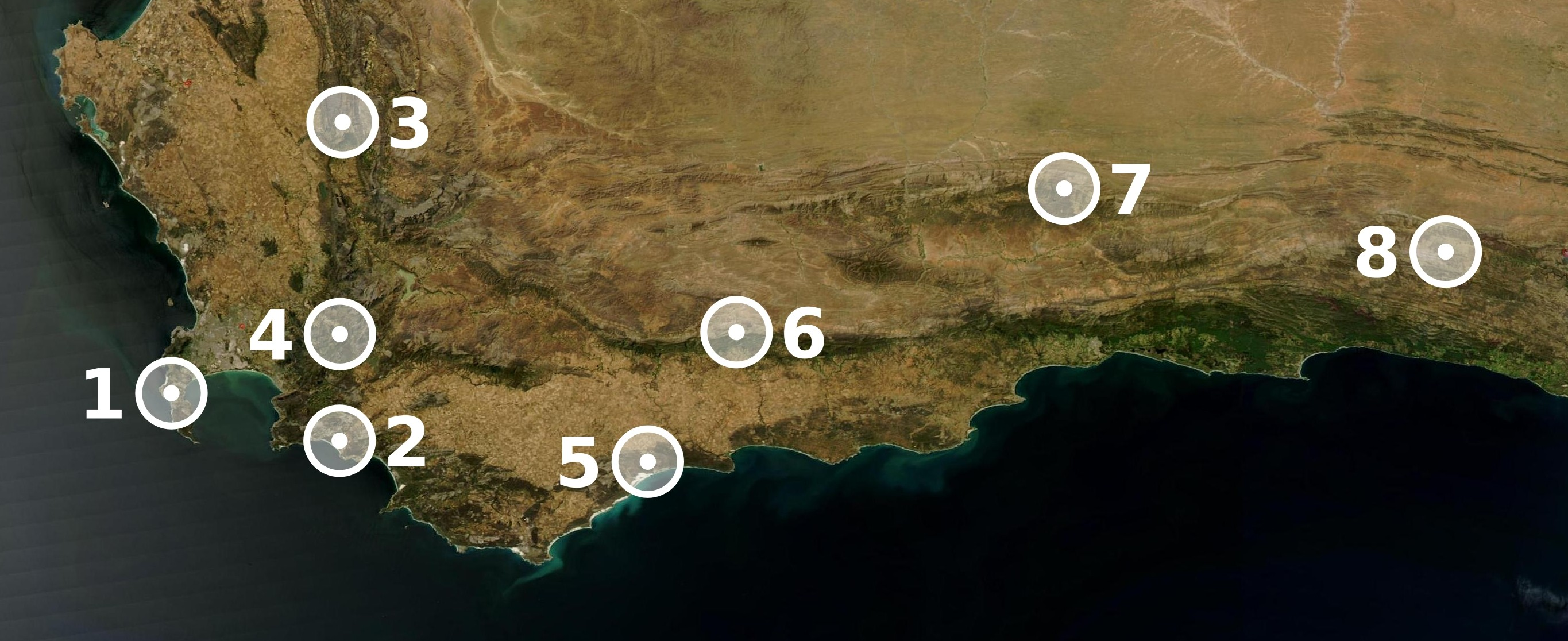 Map showing the location of the eight sites included in UNESCO's World Heritage ensemble Cape Floral Region Protected Areas, in the Cape Floristic Region of the Eastern and Western Cape, in South Africa. (1): Table Mountain National Park (formerly Cape Peninsula National Park) (2): Groot Winterhoek Wilderness Area (3): Cederberg Wilderness Area (4): Boland Mountain Complex (5): De Hoop Nature Reserve (6): Boosmansbos Nature Reserve (7) Swartberg Complex (8): Baviaanskloof Mega Reserve